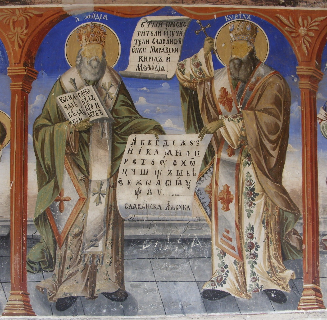 Monastery Sveti Jovan Bigorski in Macedonia, Painting of the Saints Cyril and Methodius at the outer walls of the church